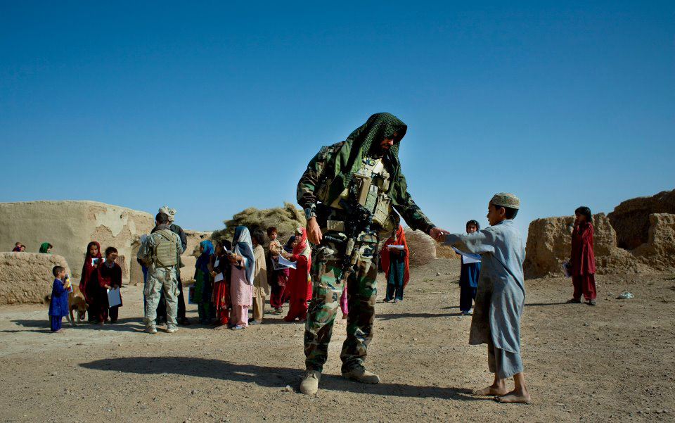 A Special Forces soldier with A Co., 1st Bn., 7th Special Forces Group gives an Afghan boy a coloring book in Kandahar Province, during a meeting with local leaders, Sept. 12, 2008. The SF team and Afghan commandos met with religious leaders to gain their support and obtain information about insurgents in the region. Special Forces soldiers, working with Afghan commandos in this region, often wear the Battle Dress Uniform to blend in with their Afghan counterparts. (Photo by Steve Hebert)